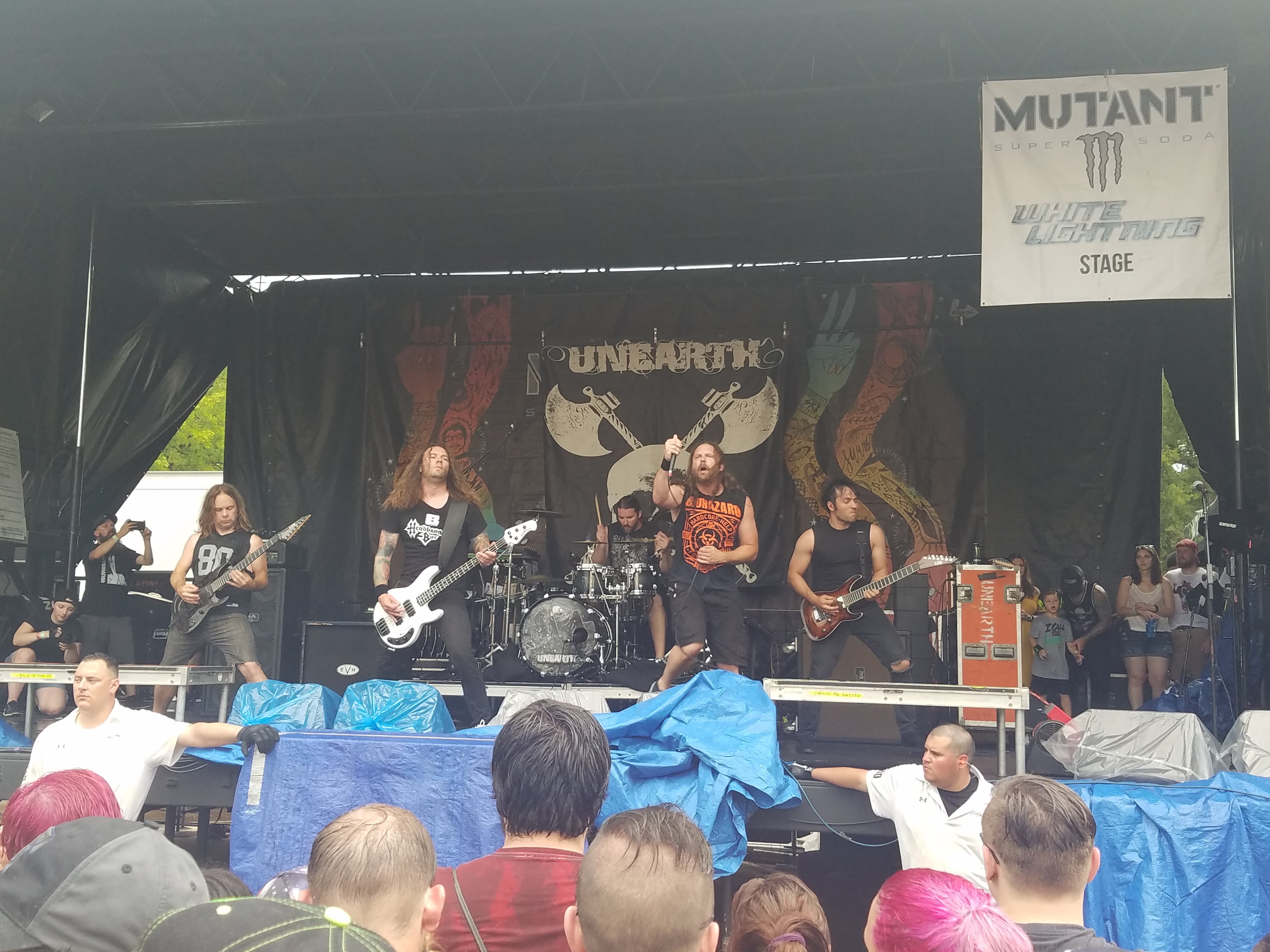 Unearth performing in 2018